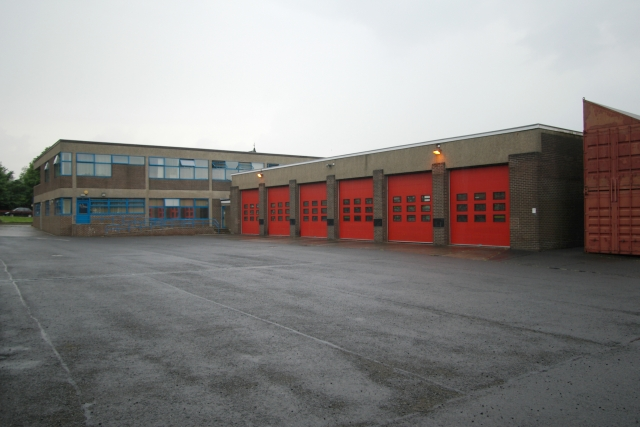 Halifax fire station. Halifax fire station, Skircoat Moor Road, King Cross, Halifax, West Yorkshire.